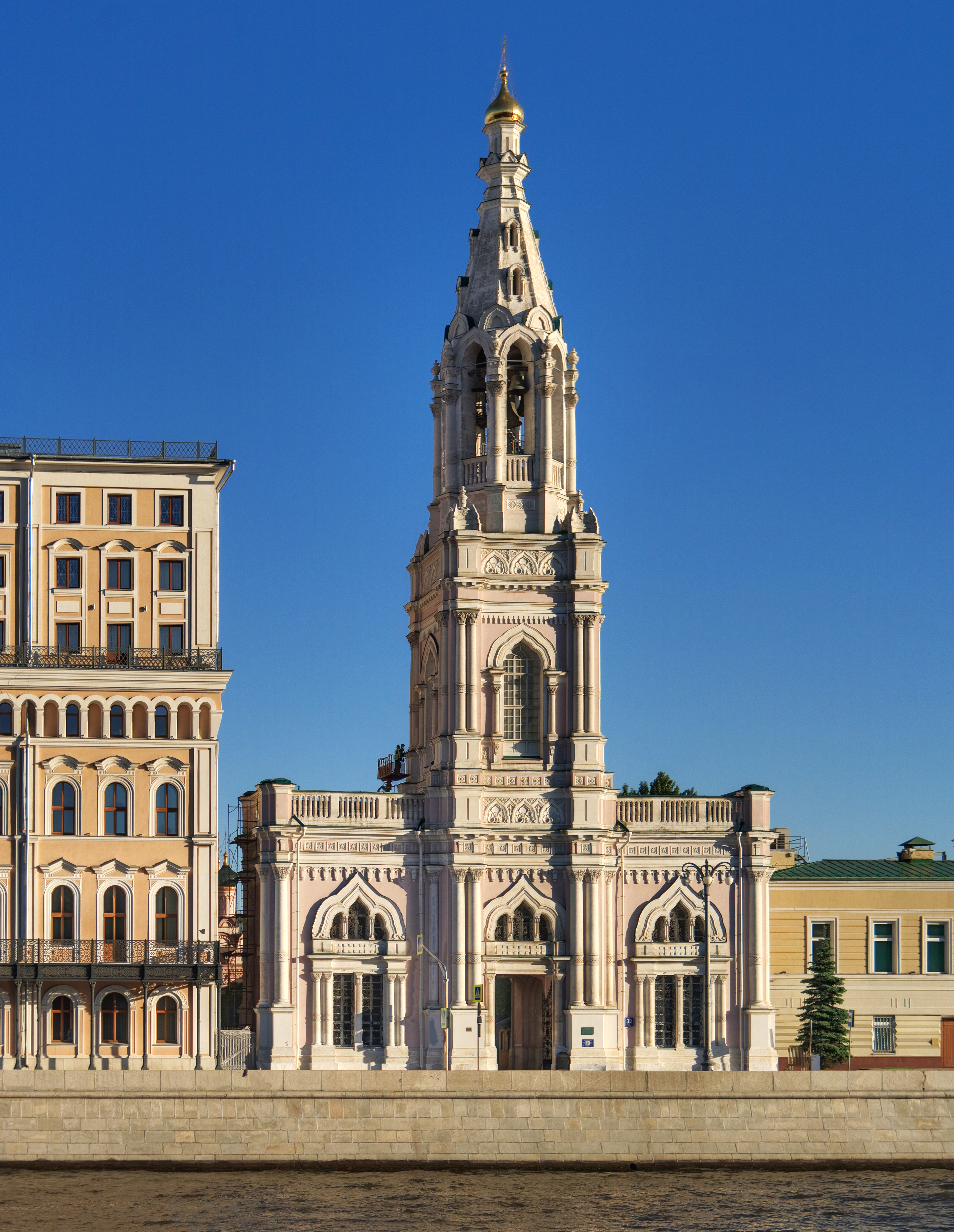 Bell tower of Saint Sophia Church in Sredniye Sadovniki, Moscow, Russia